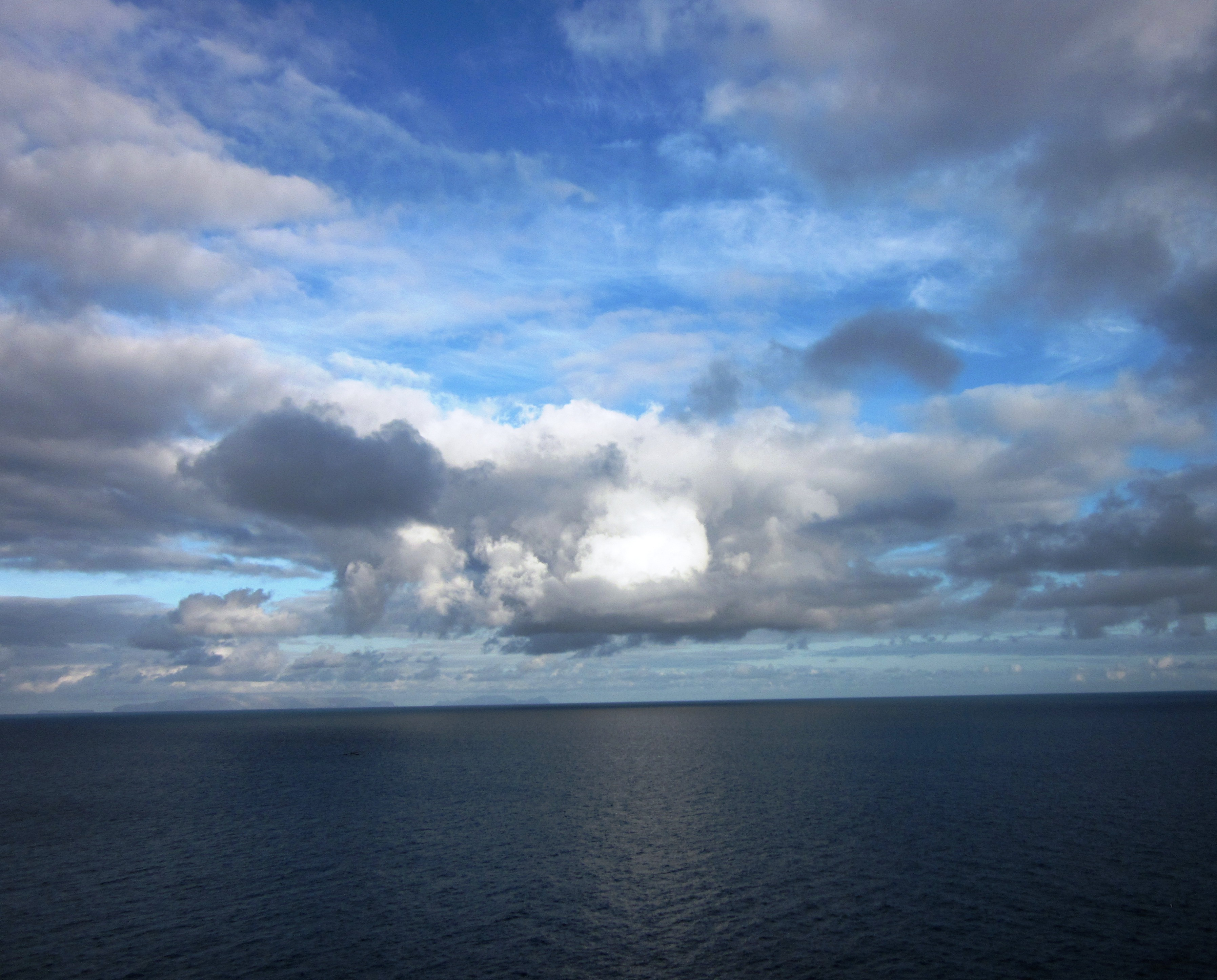 Clouds over the Atlantic